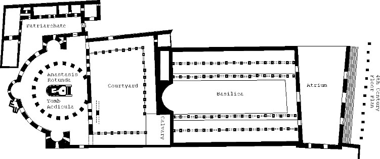 Diagram of the Holy Sepulchre